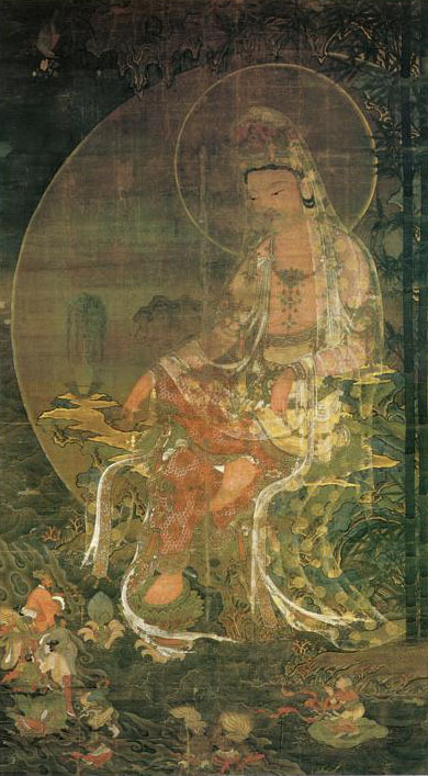 Yoryu Kannon, Daitokuji, Kyoto, Kyoto, Japan